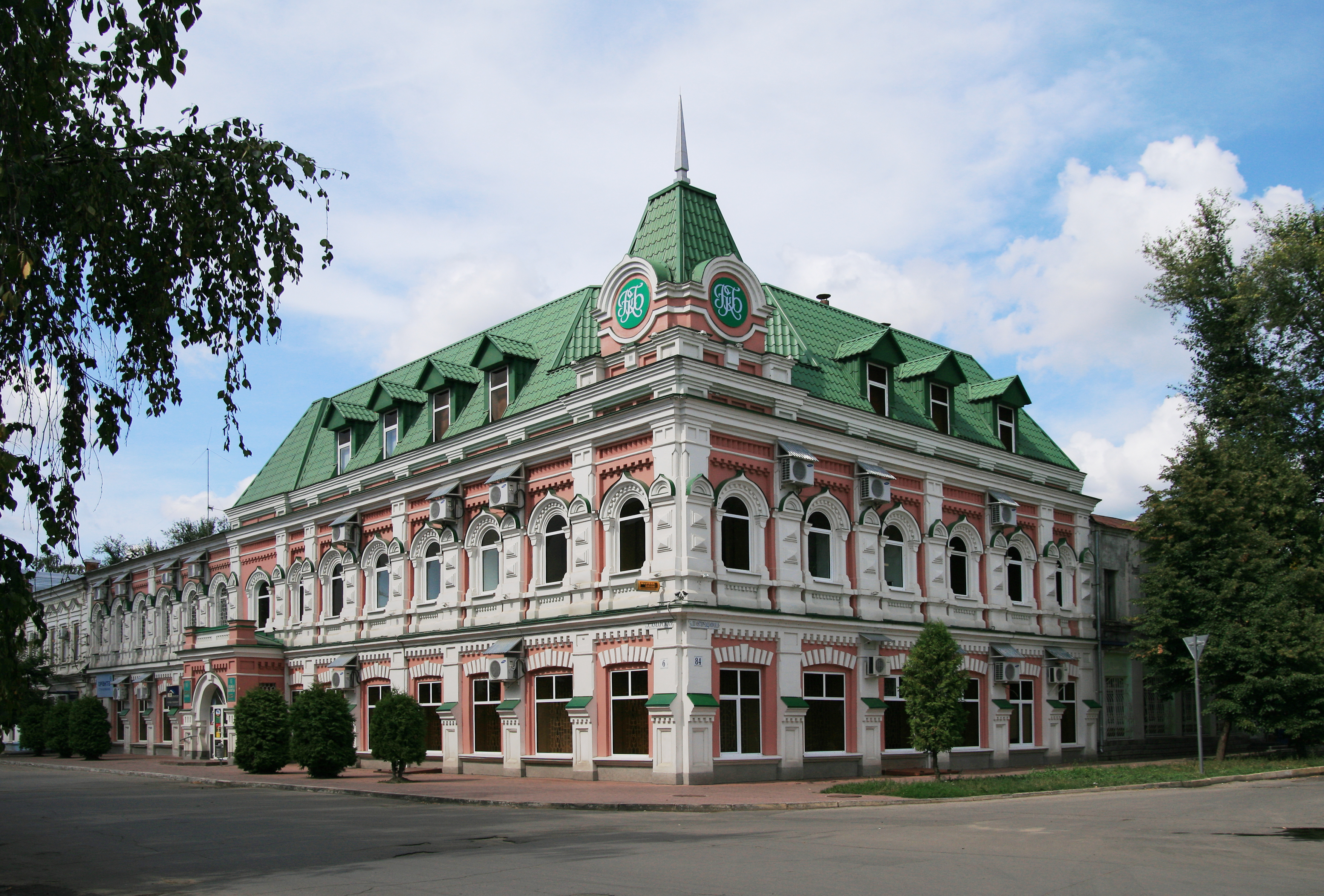 Trading House of Korobov, III International Street. 84 / Samarskaya Street 6, Dimitrovgrad, Ulyanovsk Oblast